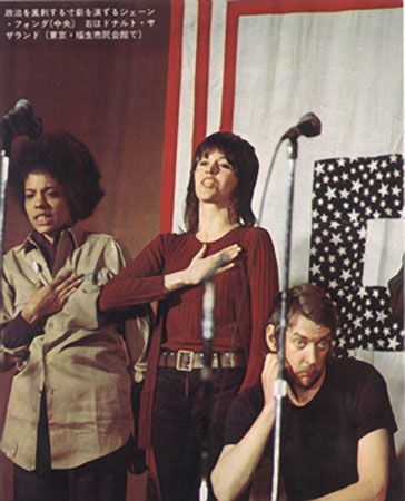 Rita Martenson, Jane Fonda and Donald Sutherland in the FTA (Fuck The Army) Show 1971.